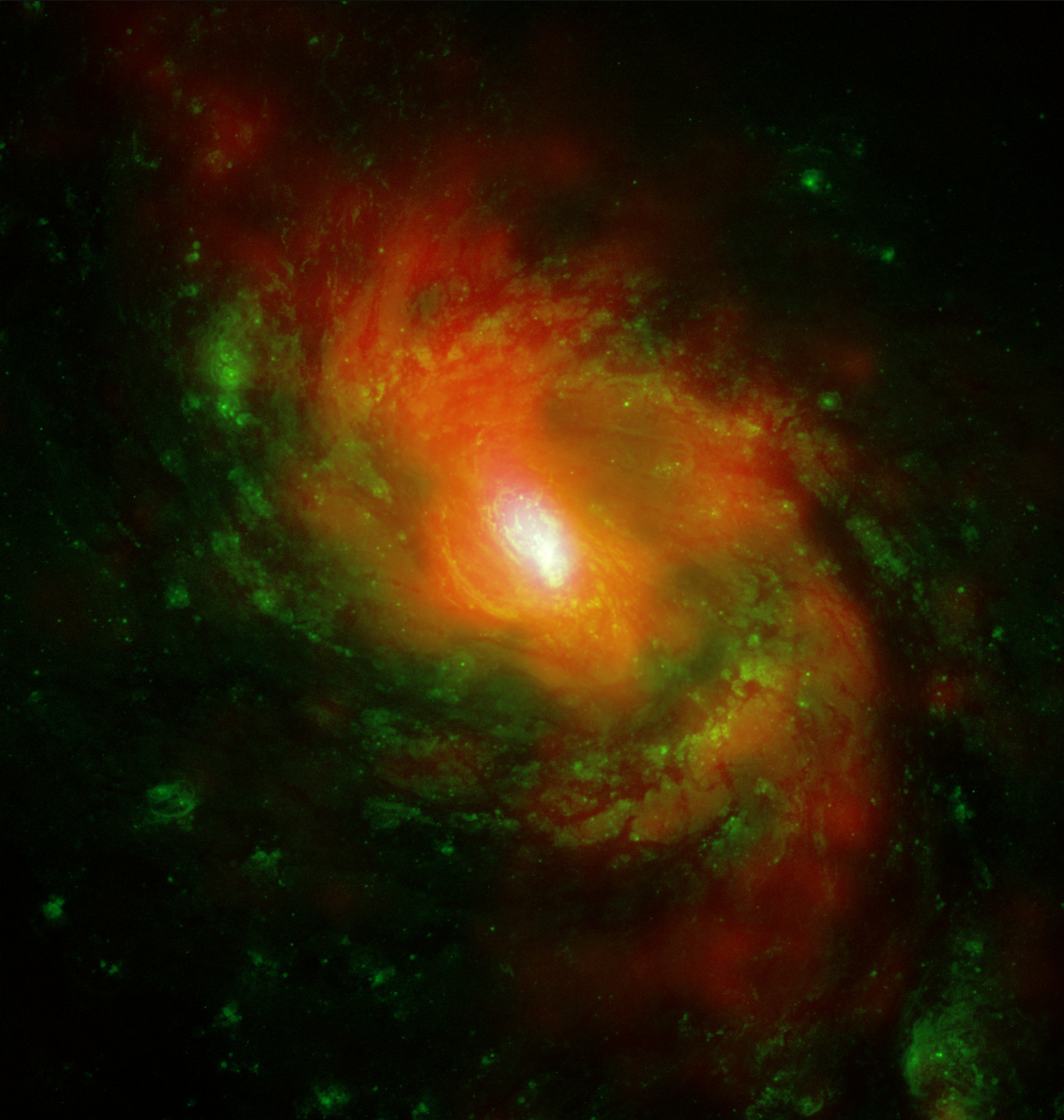 X-ray and Optical Image of NGC 1068 - This image shows a multiwavelength view of NGC 1068 (also known as Messier 77), one of the nearest and brightest galaxies containing a rapidly growing supermassive black hole. X-ray data from the Chandra X-ray Observatory are shown in red while optical data from the Hubble Space Telescope is in green. The spiral structure of NGC 1068 is shown by this data. NGC 1068 is located about 50 million light years from Earth and contains a supermassive black hole about twice as massive as the one in the middle of the Milky Way Galaxy.